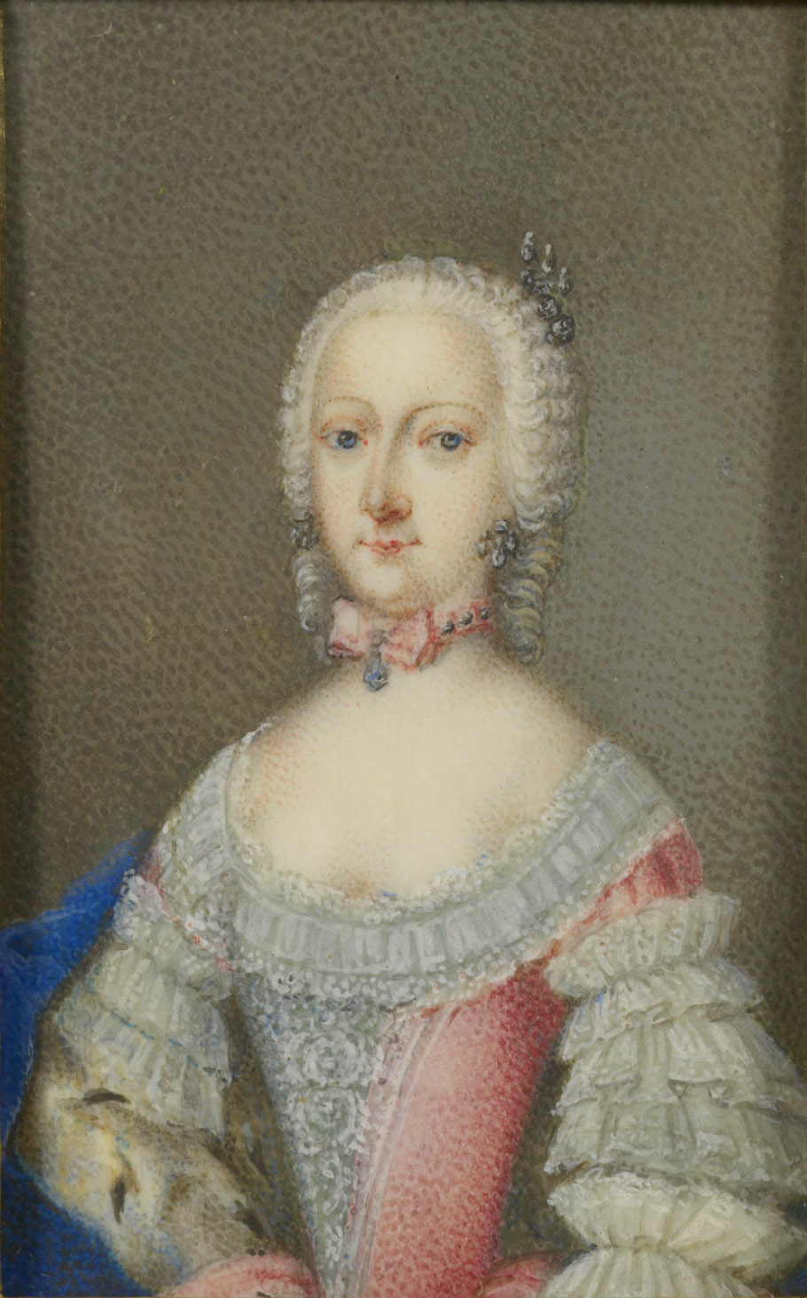 Louisa, Duchess of Saxe-Hildburghausen (1726-1756), daughter of Christian VI of Denmark, in 1749, she married Frederick III, Duke of Saxe-Hildburghausen, as his first wife.